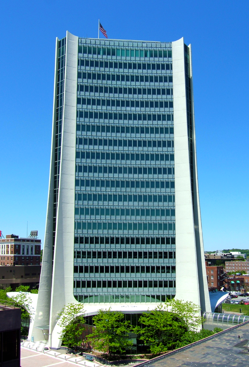 1 Landmark Square in Stamford, Connecticut. Completed in 1973, the Victor Bisharat designed building has become a major landmark for the city. The building is featured in the city's newly redesigned logo, along with One Stamford Forum, another famous Bisharat building in Stamford.